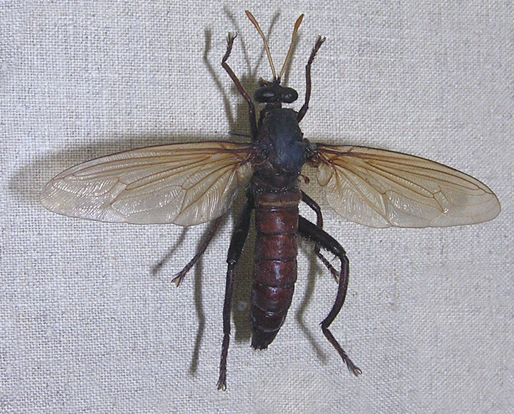 Mydas coerulescens, Saint Peterburg Museum of Zoology, Russia.